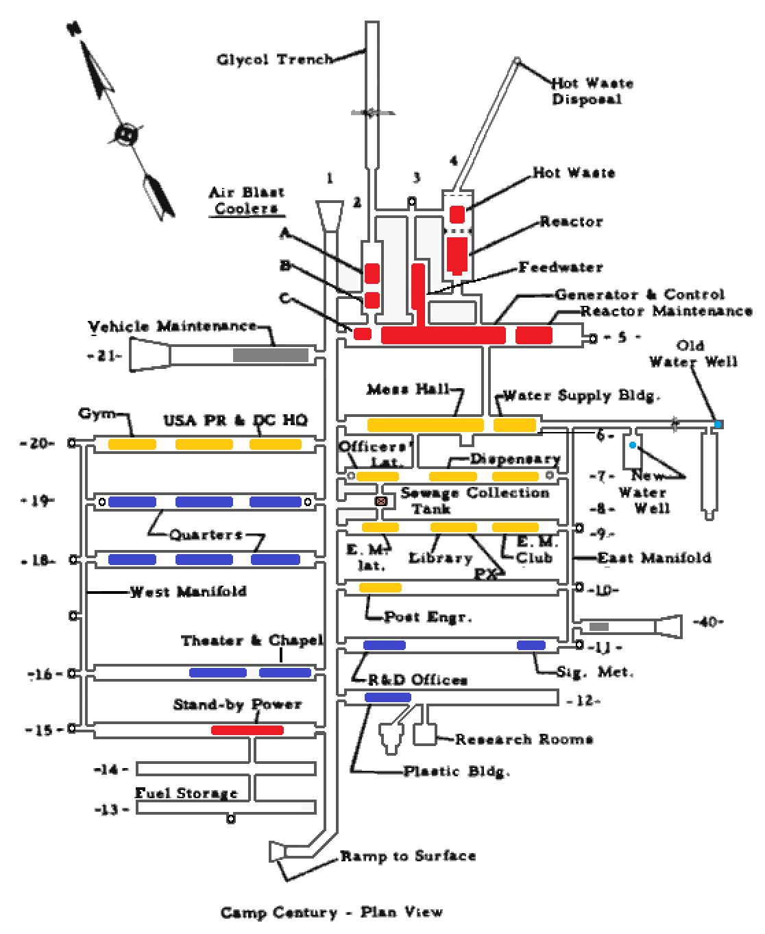 Derived from: Technical report 174 (PDF), fig. 26, p. 34 (in the public domain) Camp Century Evolution of Concept and History of Design Construction and Performance, U.S. Army Materiel Command PDF Colors from (7min 50sec) in